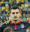 SHAKHTAR DONETSK VS. SPORTING BRAGA 2 - 0